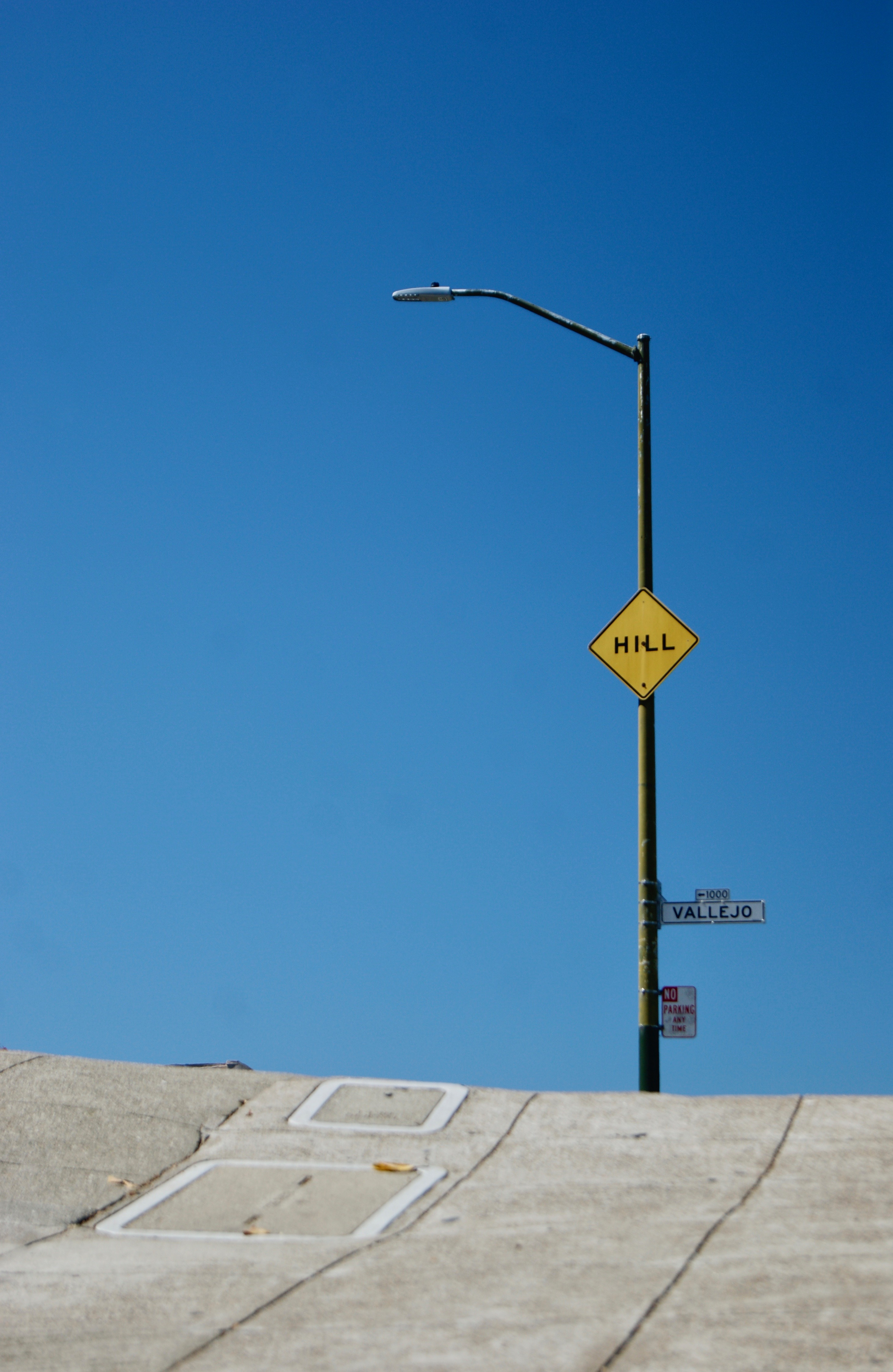 A hill sign on Taylor and Vallejo streets in San Francisco, California